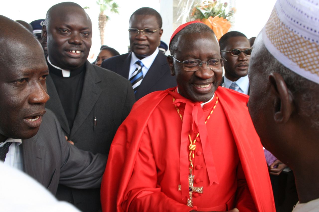 Cardinal Theodore Adrien Sarr